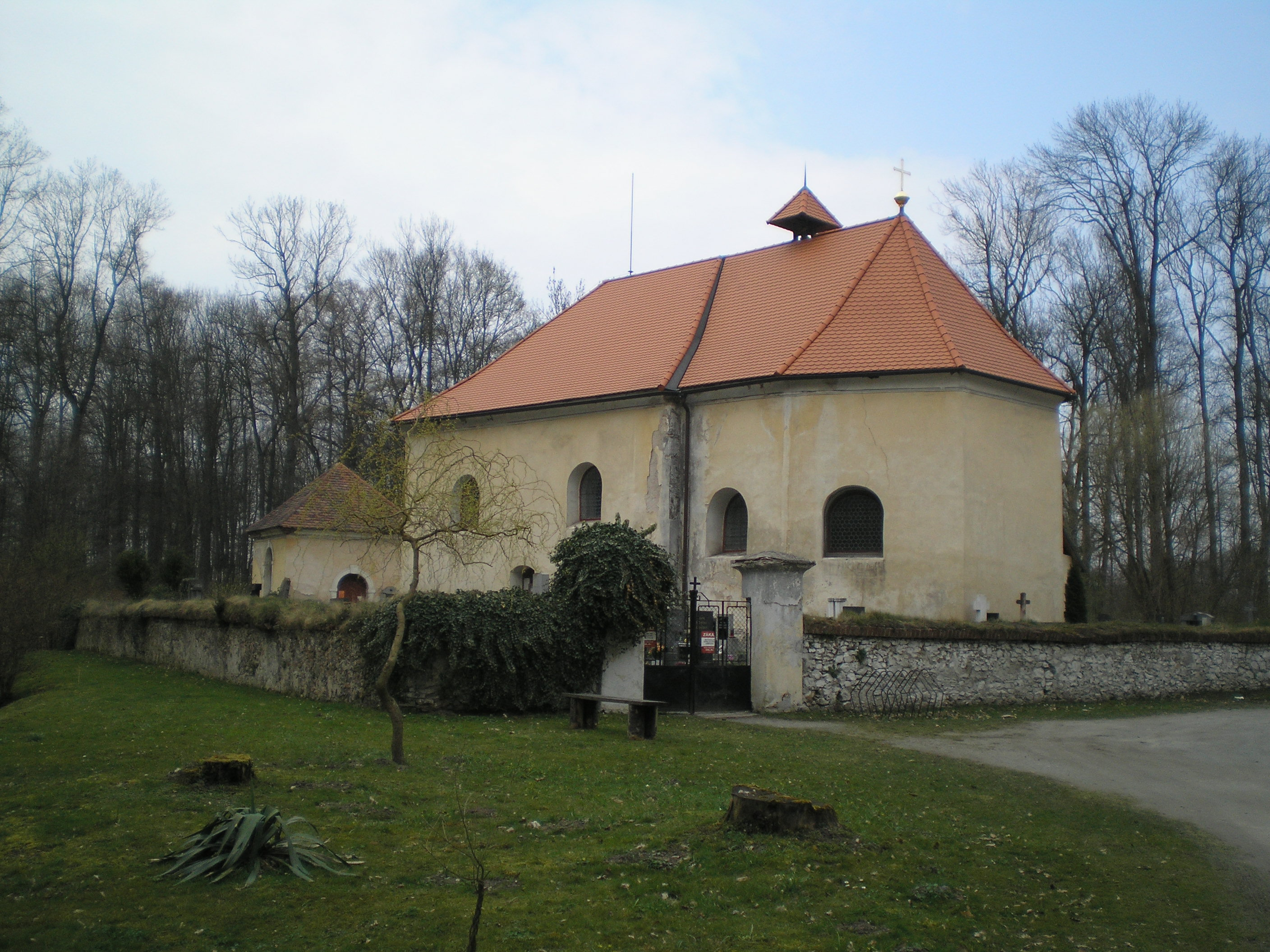 Church of Saint Michael Archangel in Valy-Lepějovice from south